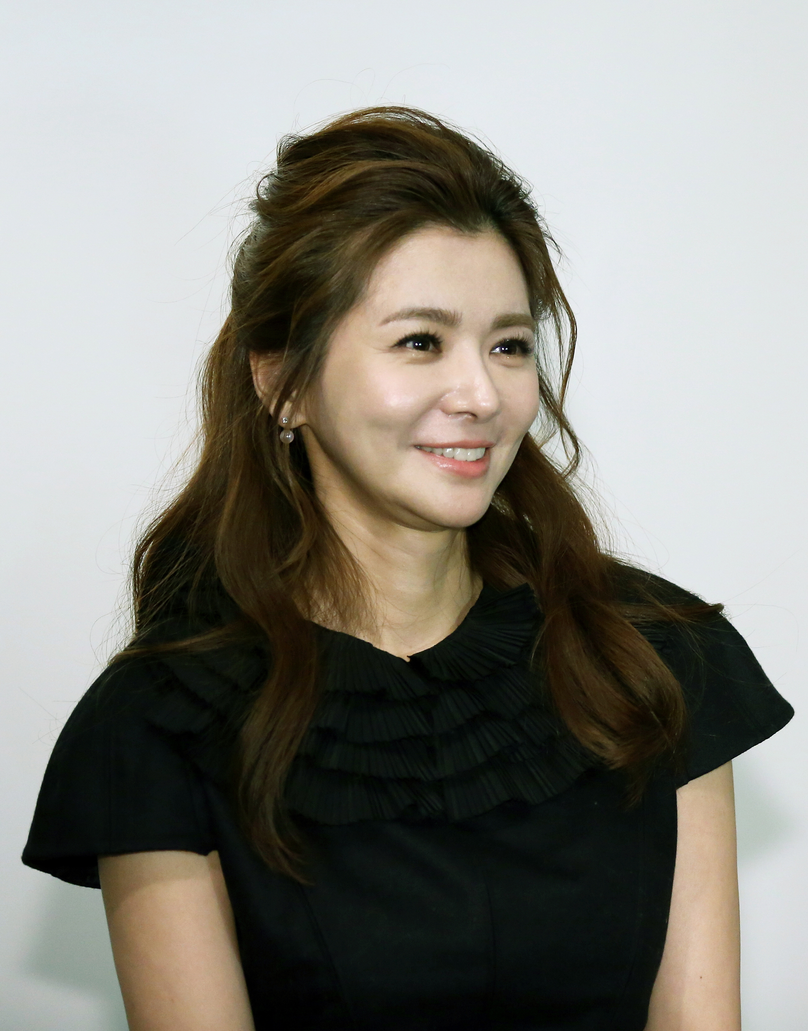 ‘One Divided into Three’ The Exhibition of Three Korean Artists at Today Art Museum in Beijing, China November 08, 2014 Today Art Museum, Beijing, China